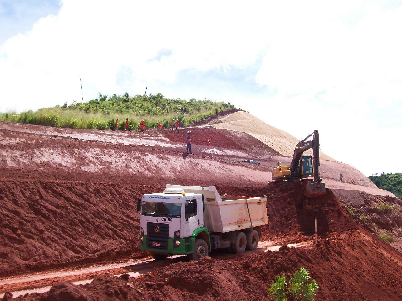 Volkswagen Constellation 6x4 dump truck in Brazil.